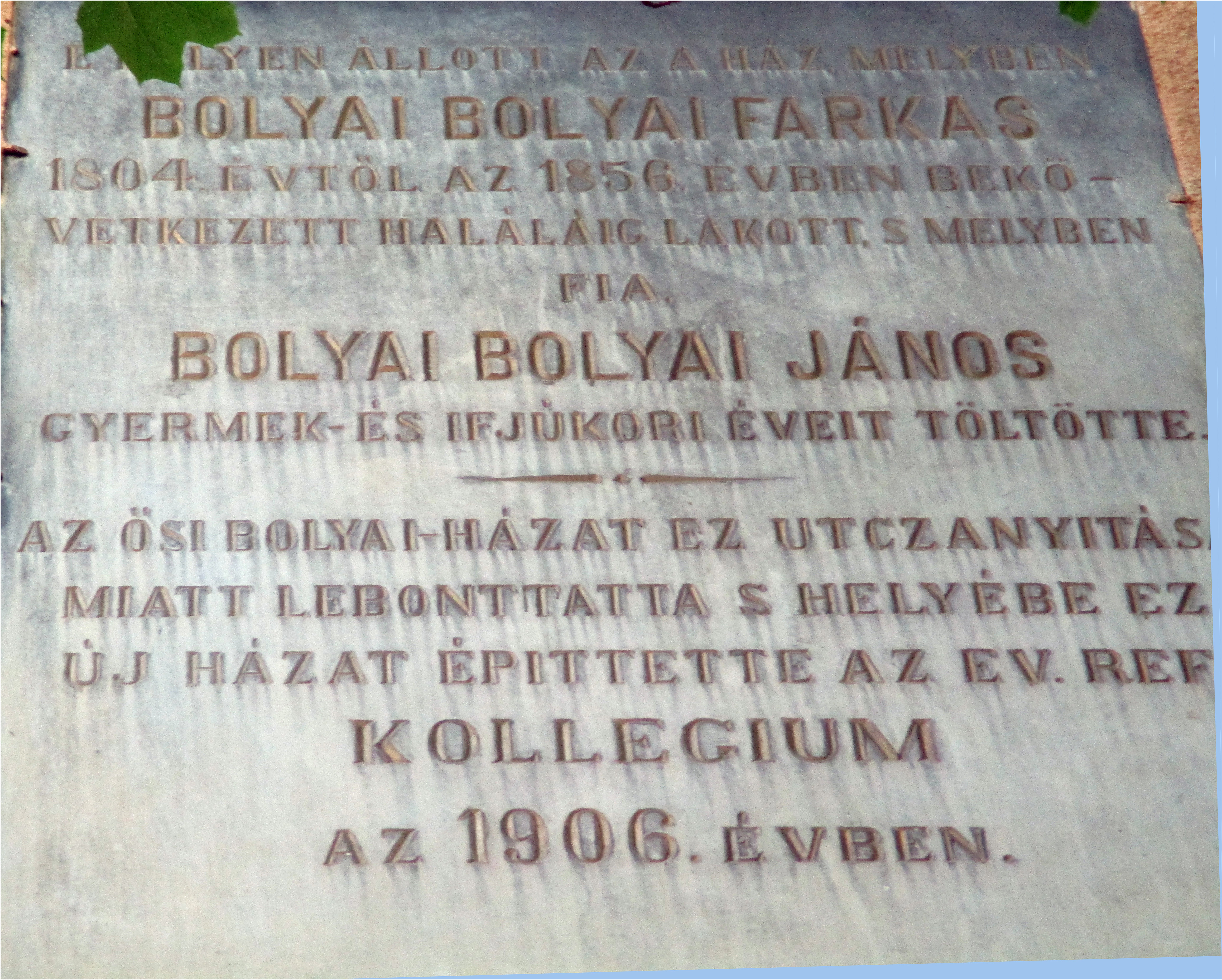 Memorial plaque in Hungarian on a house in Tg. Mureș where the house of Farkas Bolyai was before its breakdown.